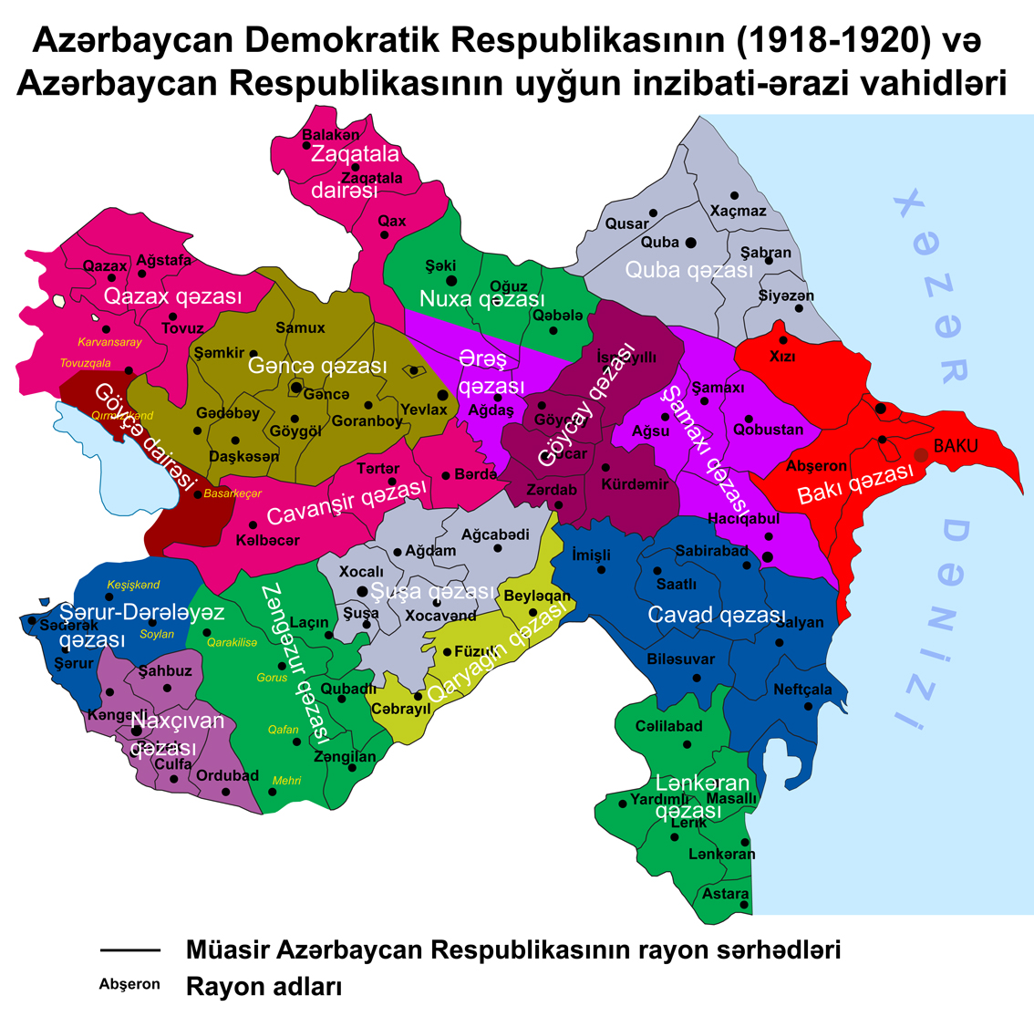 A map showing comparative administrative divisions of Azerbaijan Democratic Republic (1918-1920) and modern Azerbaijan Republic in Azerbaijani.